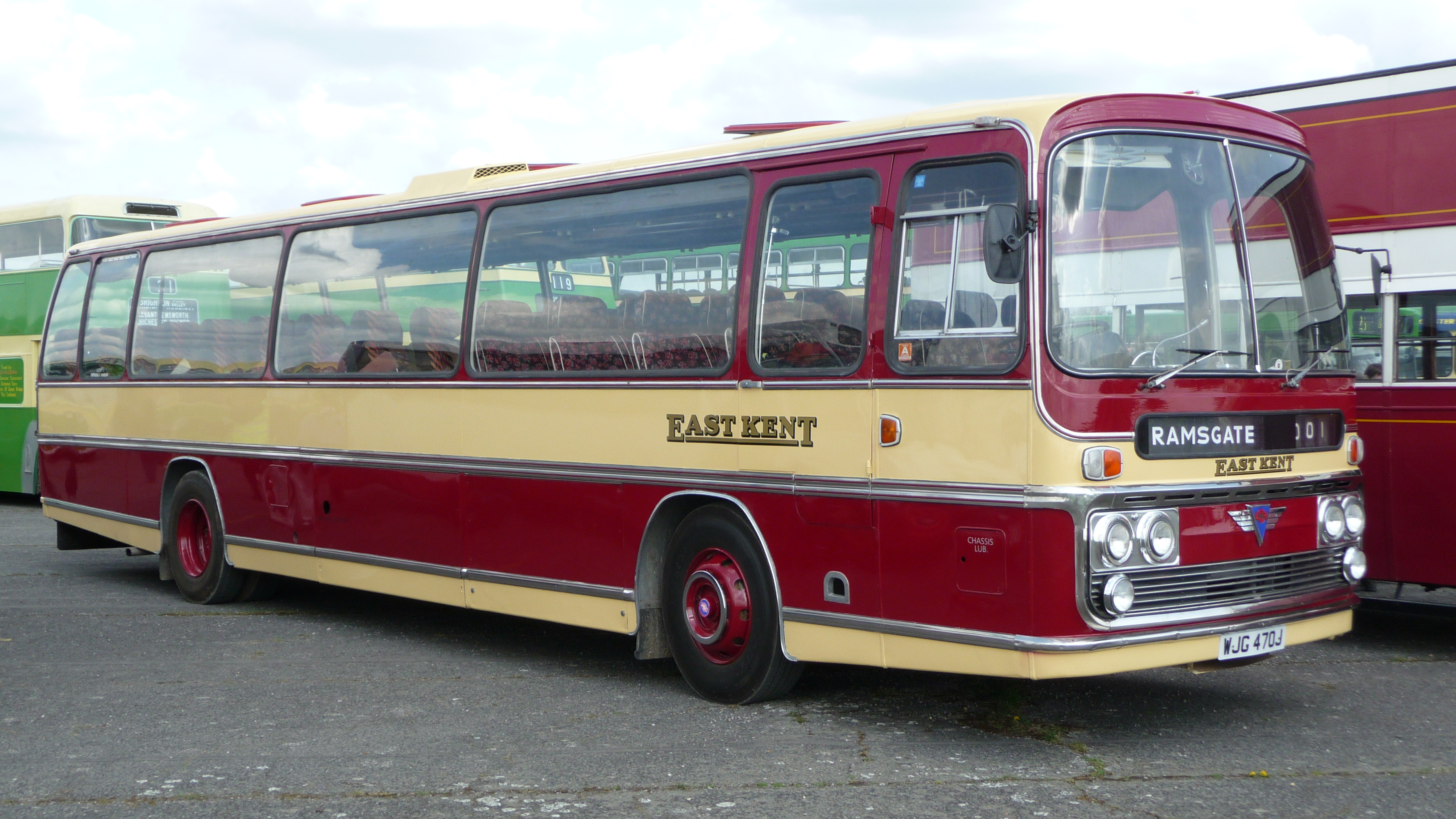 Preserved East Kent Road Car Company WJG 470J, an AEC Reliance/Plaxton Panorama, at the 2009 Cobham bus rally at Wisley Airfield.